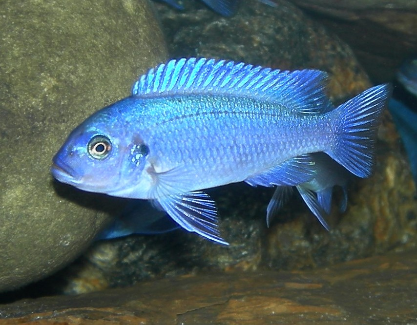 Juvenile Maylandia callainos Syn: Pseudotropheus zebra "cobalt". This fish is 1.5 inches from head to tail.